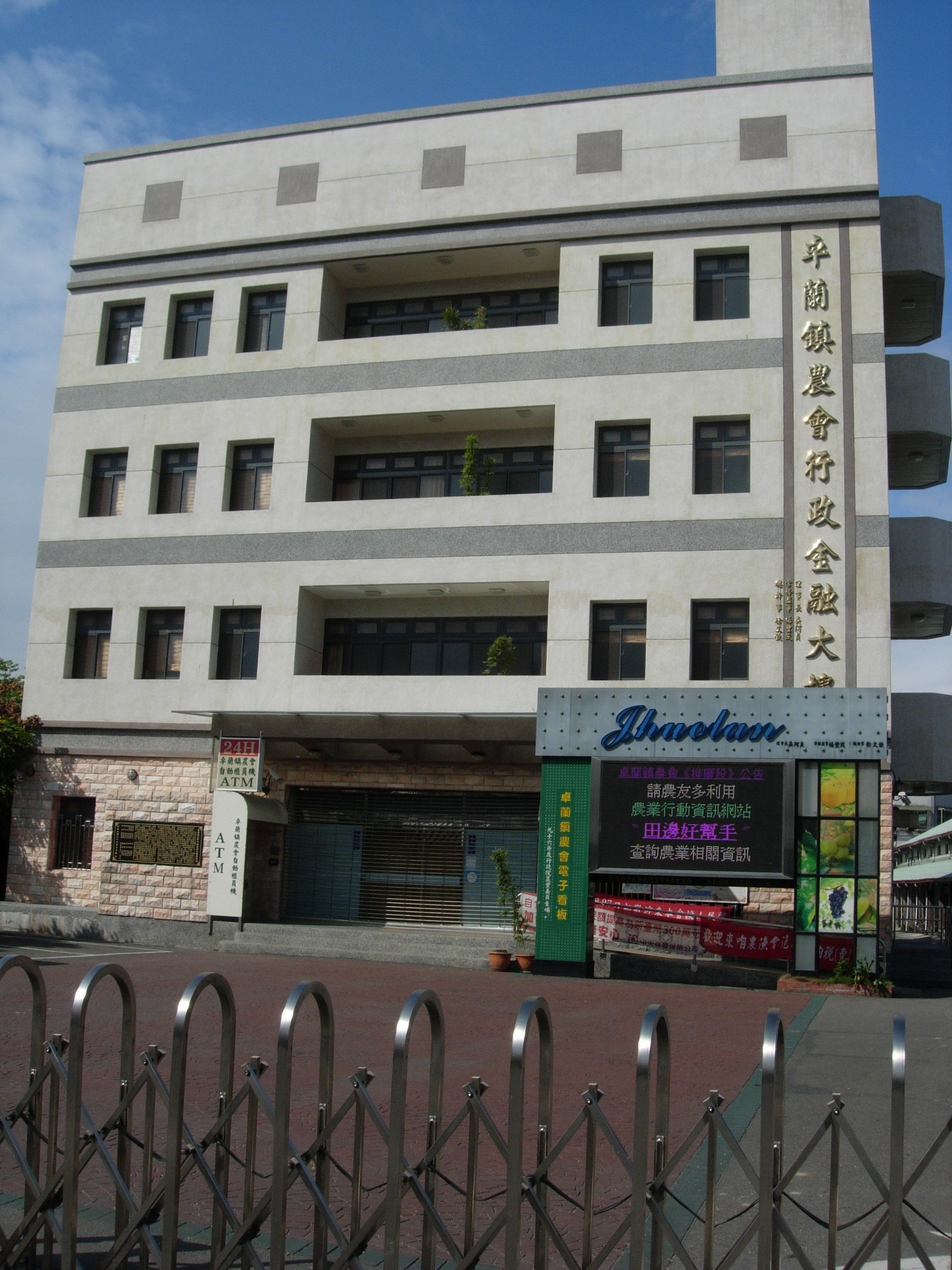 Jhuolan Farmers Association Building.中文（台灣）: 卓蘭鎮農會大樓。